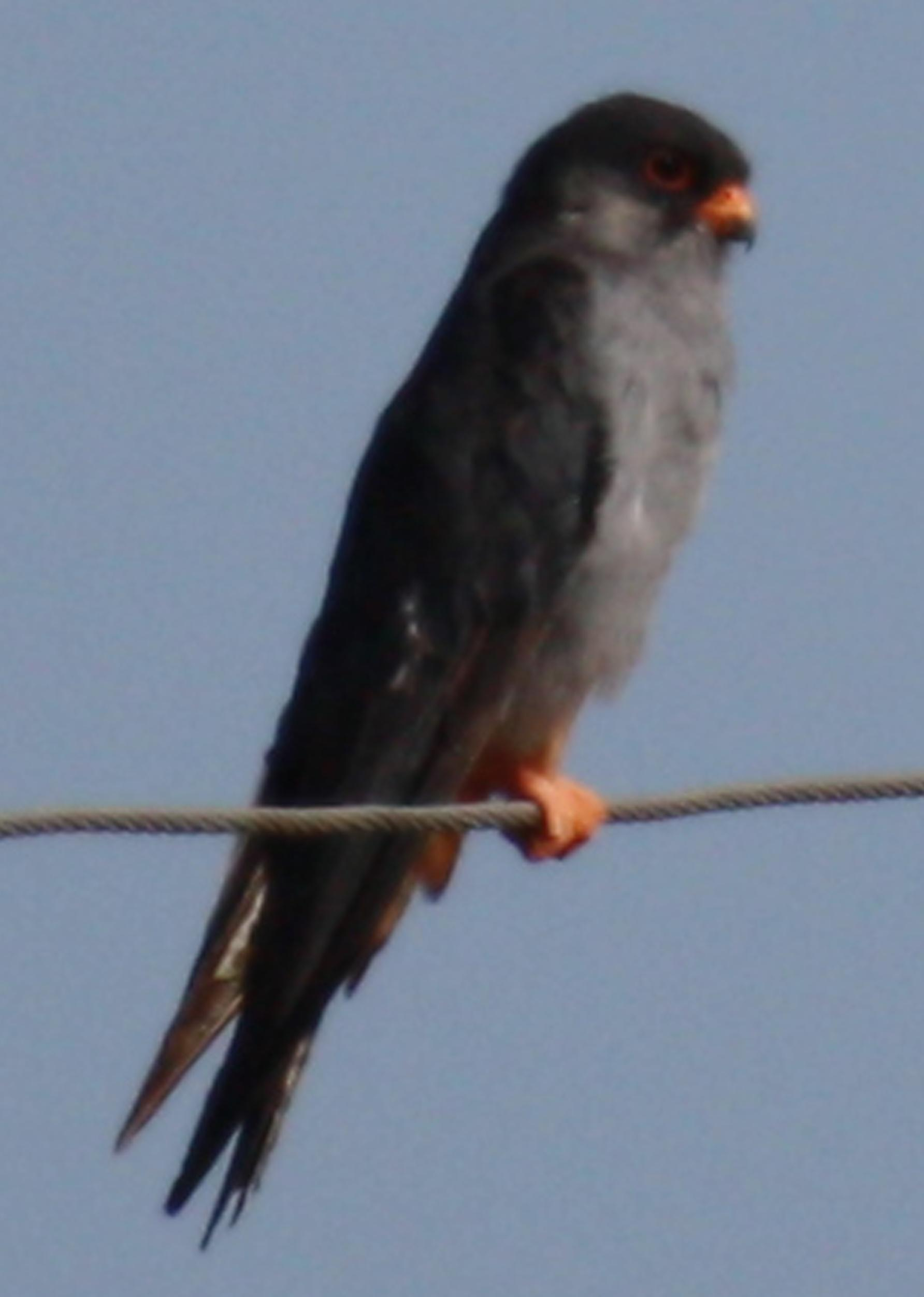 An Amur Falcon in Mongolia.